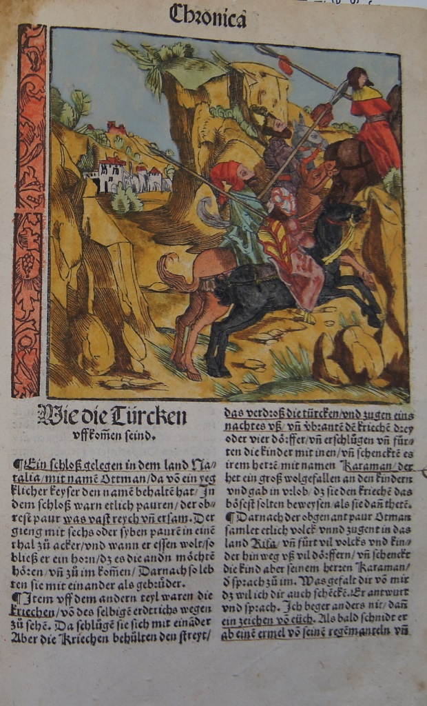 Türckische Chronica, Wie die Türcken uffkommen seind, by Johannes Adelphus, printed in Straßburg 1516